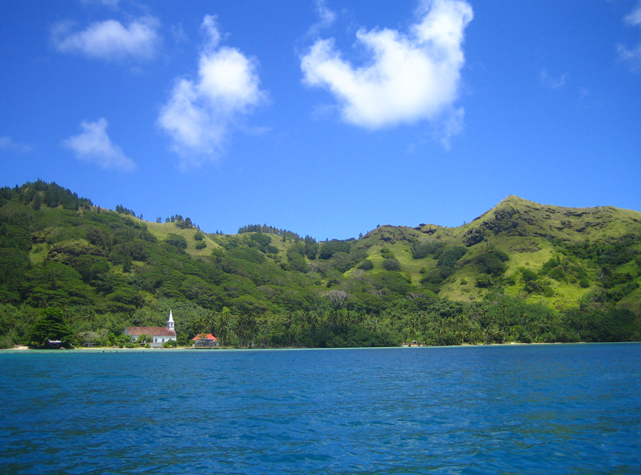 Taravai, Gambier Islands, French Polynesia.